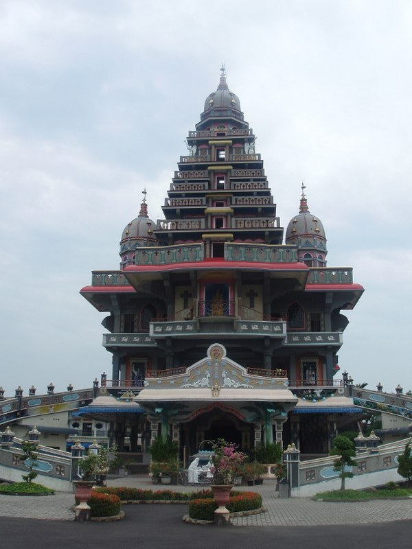 Graha Maria Annai Velangkanni